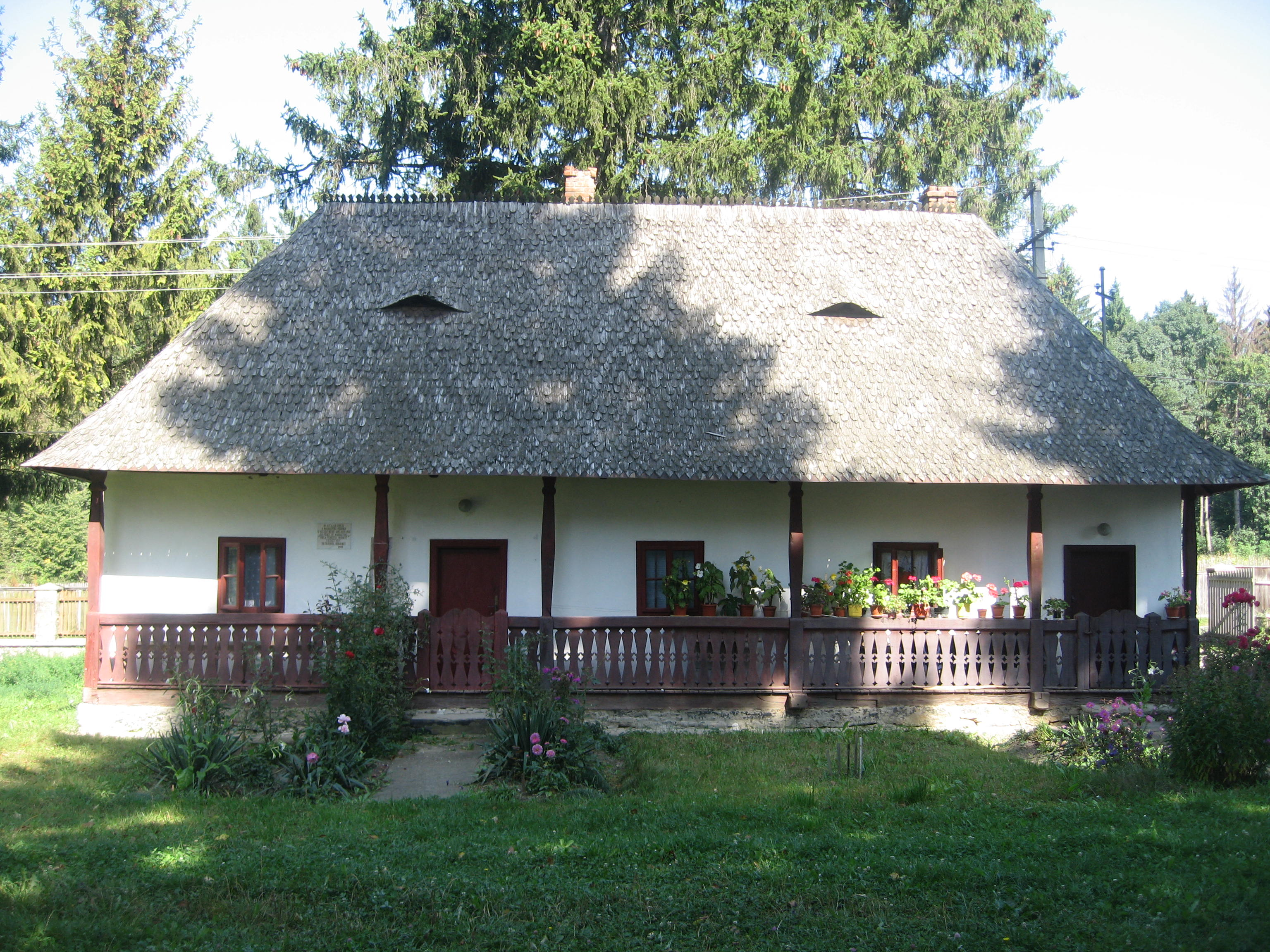 Mănăstirea Vorona 03